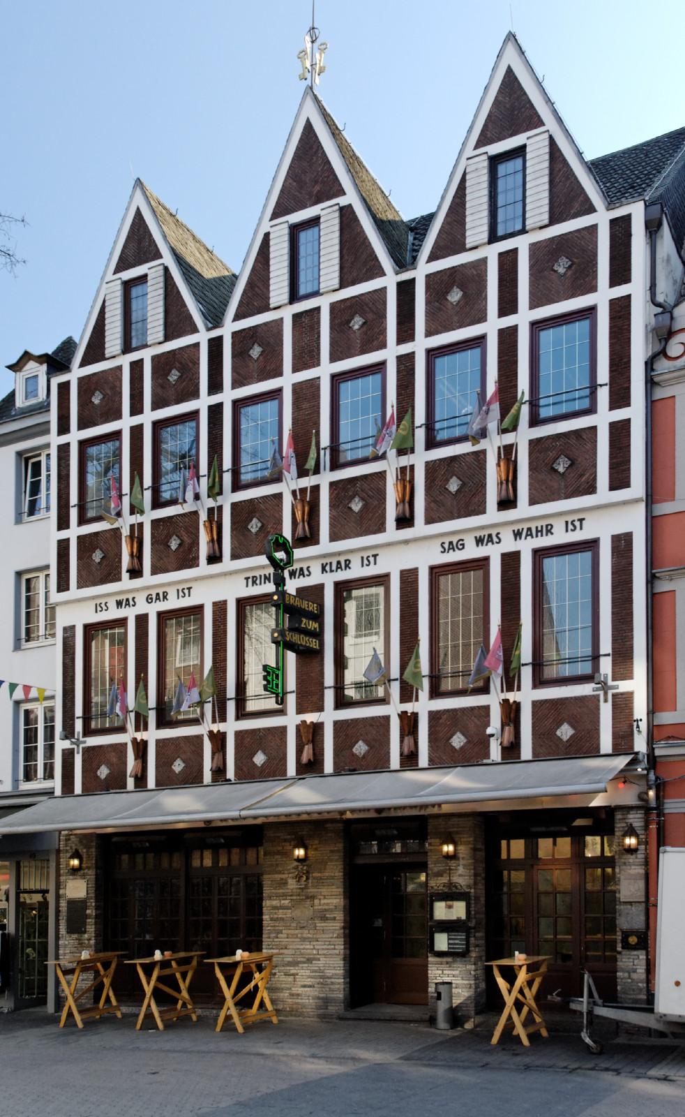 House Bolkerstraße 45 in Düsseldorf-Altstadt, Germany